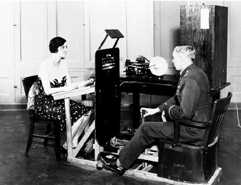 Classification Center Eye Hand Coordination Test